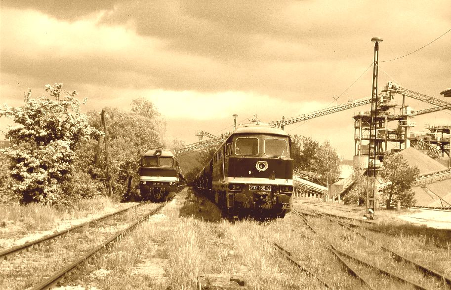 Railway station Immelborn, Thuringia